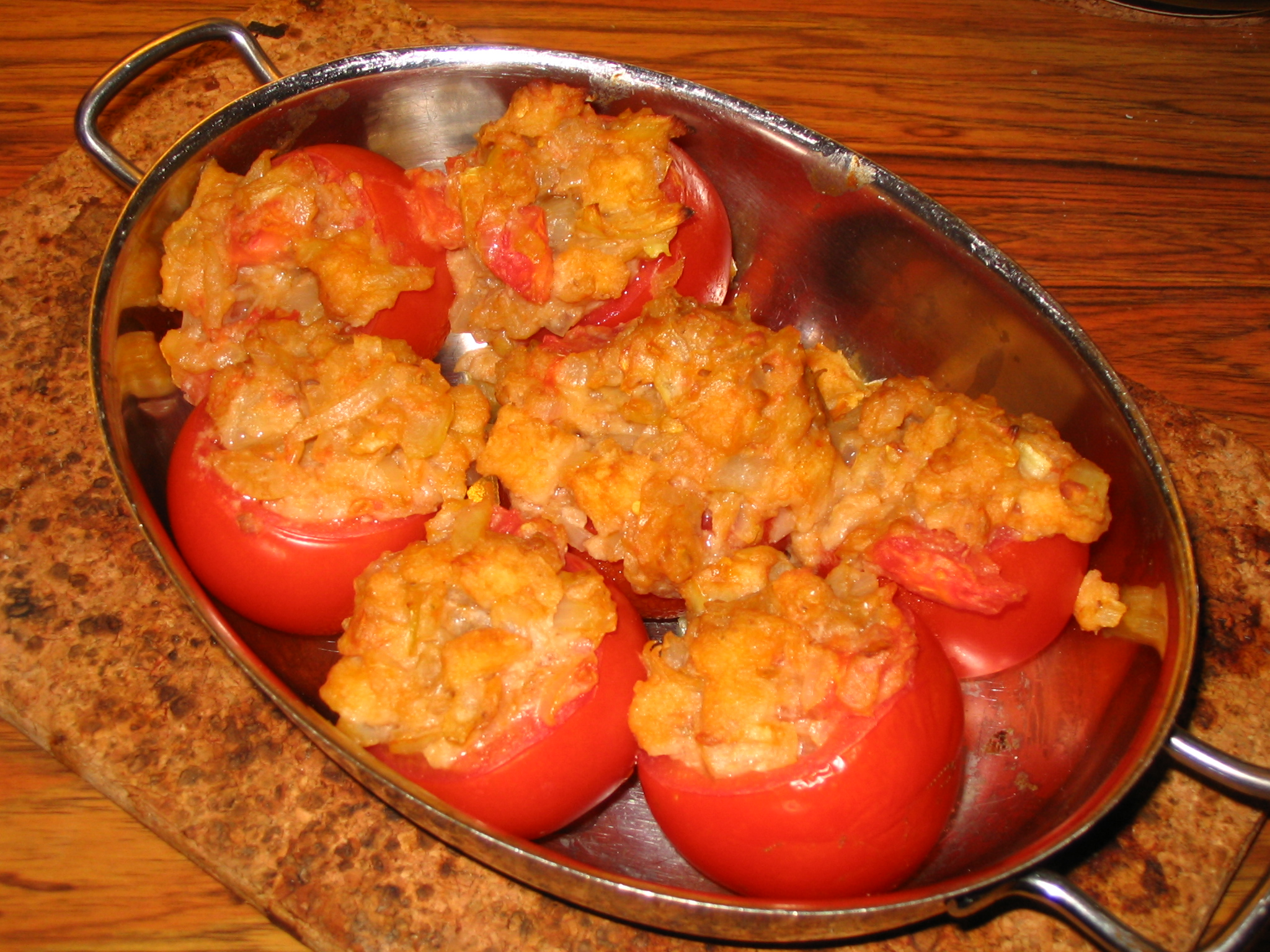 Tomatoes filled with onion and European anchovy.